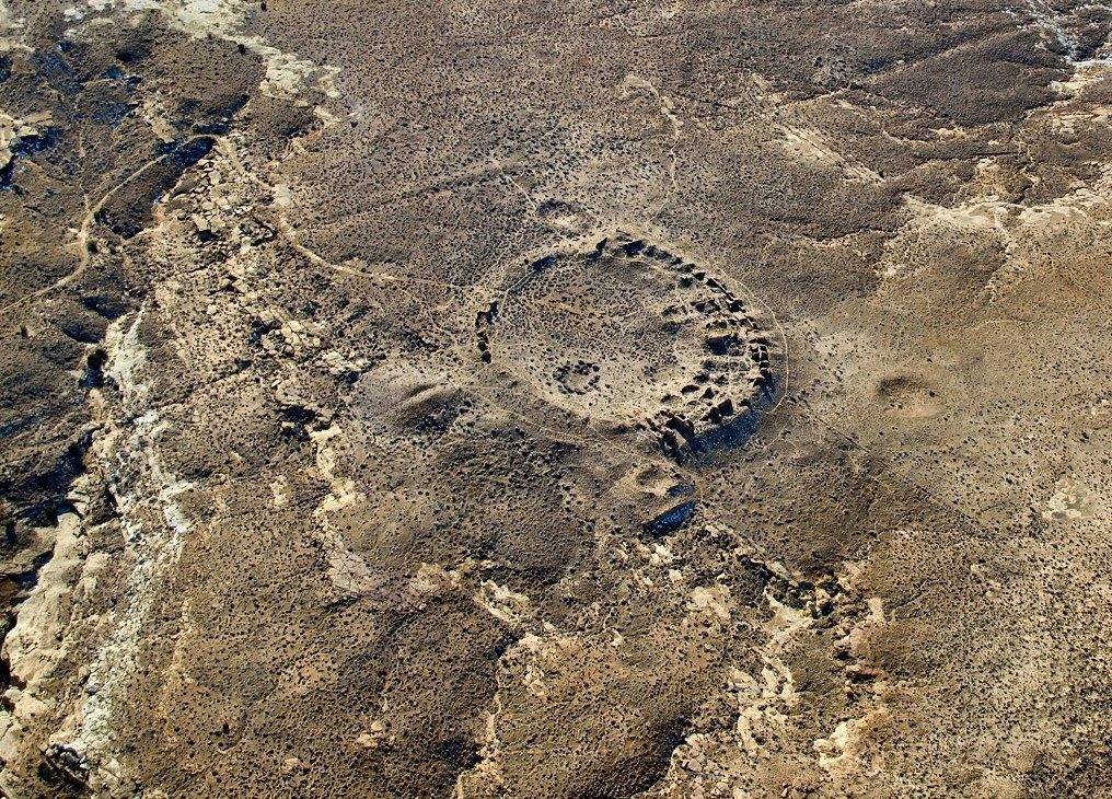 Aerial view of Penasco Blanco, an Anasazi pueblo in Chaco Canyon